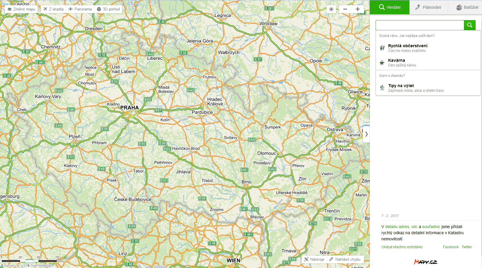 Mapy.cz in 2017 year.